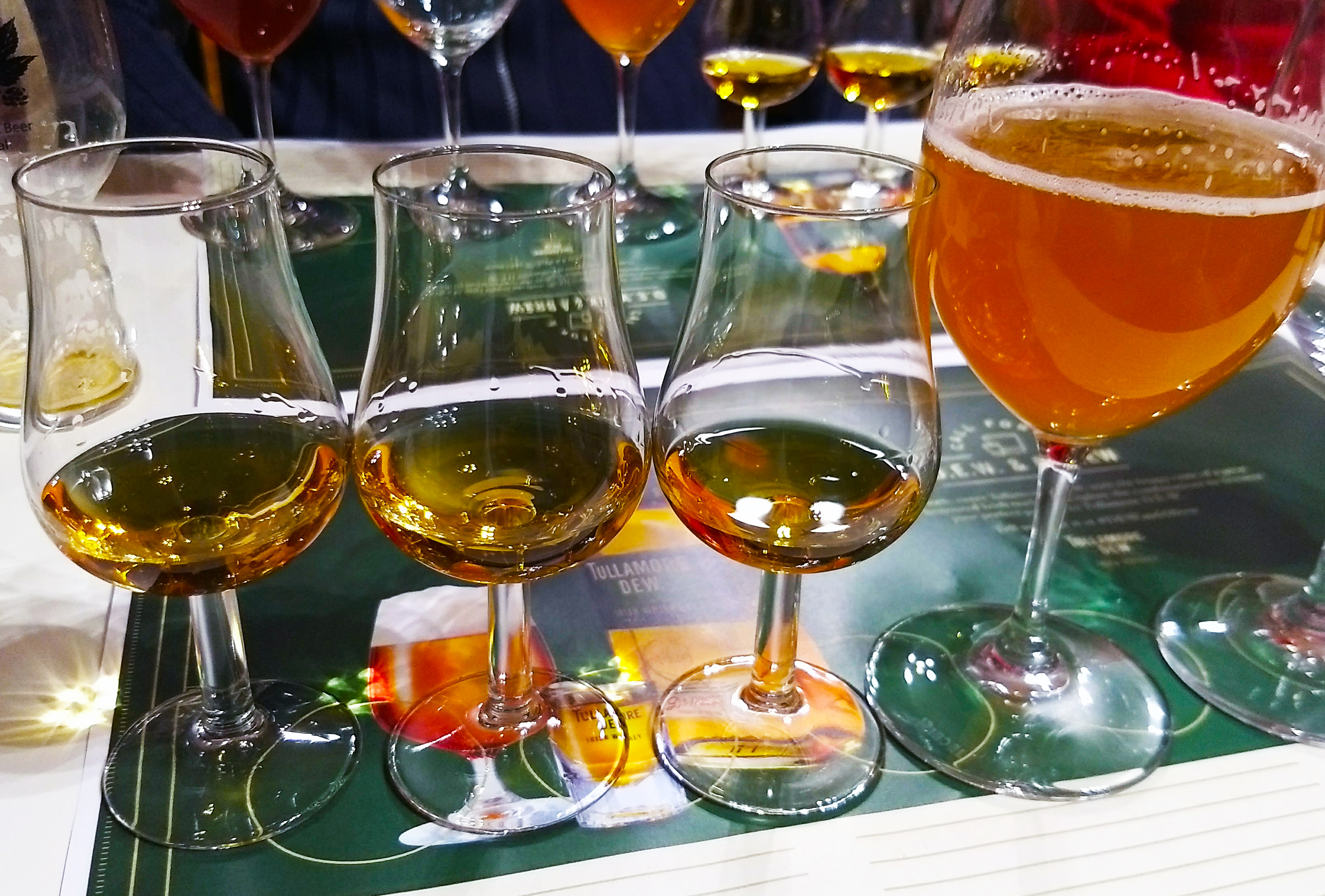 Craft Beer Festivals in Turku 2018 whisky and beer tasting